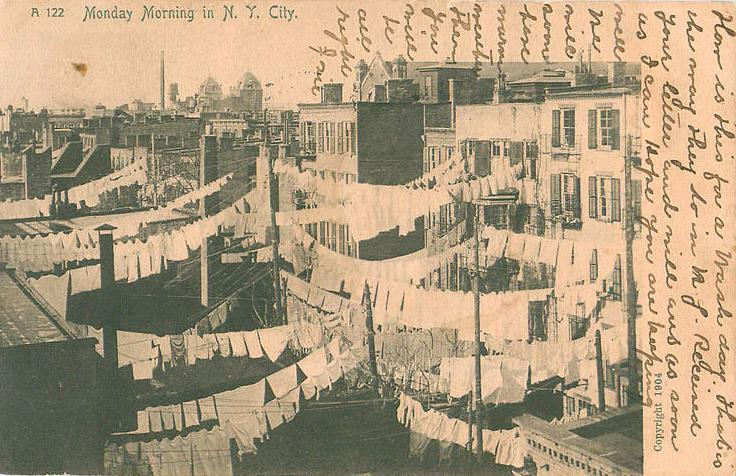 Postcard: Multiple clothes lines in New York, copyright 1904 Description: From front of postcard, caption: "Monday Morning in New York City" Also on front: "Copyright 1904" Store Web pages also show opposite side of card with 1906 postmark. Undivided back. Back states: "The Rotograph Co., N. Y. City, (Germany)" Source: eBay store Web site (image) (image of opposite [address] side)